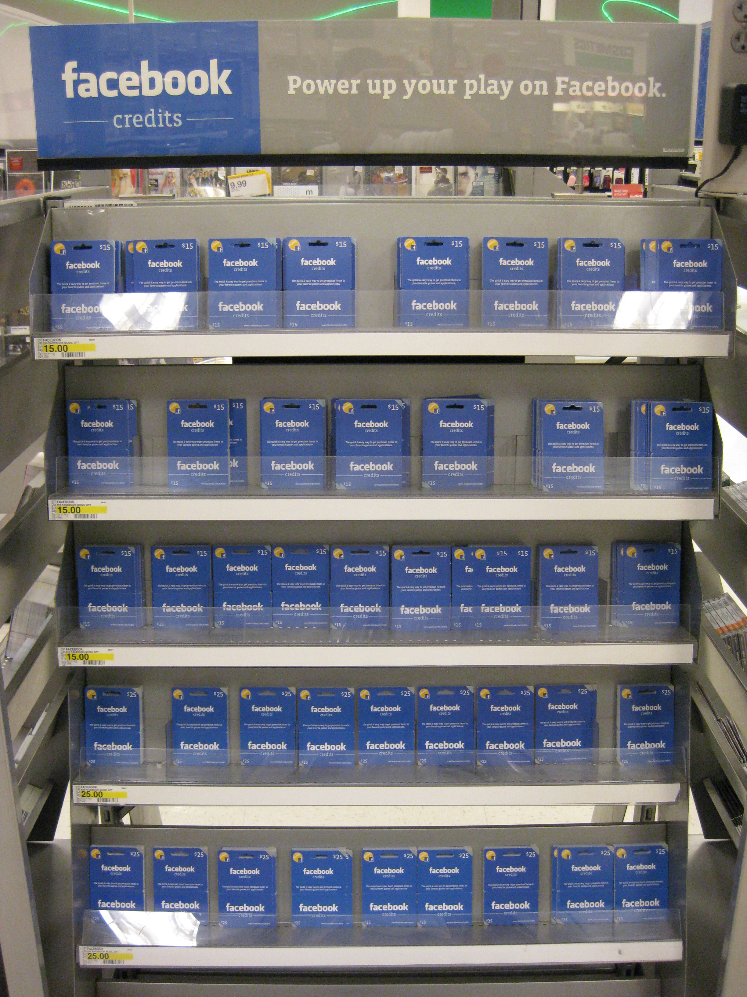 A display of cards with Facebook Credits